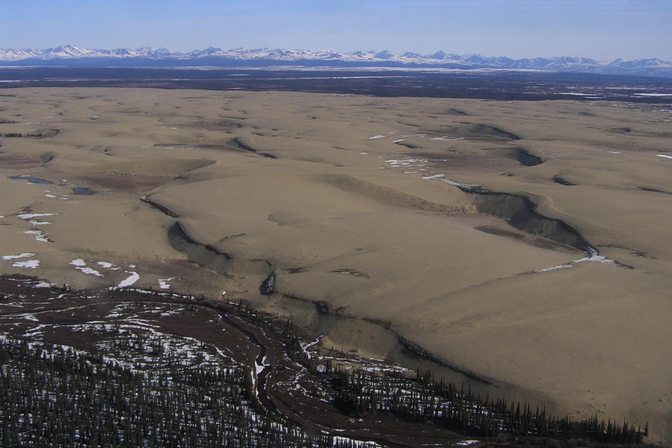 Kobuk Dunes in Kobuk Valey National Park, Alaska